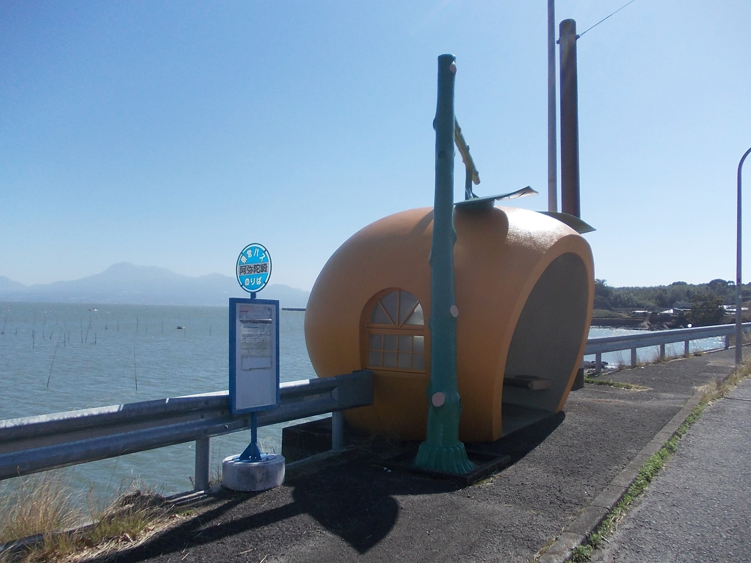 Bus stops with fruit forms in Konagai, Nagasaki with Mount Unzen in the background.